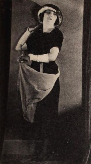 Still from the American comedy film Bunty Pulls the Strings (1921) with Leatrice Joy on page 89 of the December 18, 1920 Exhibitors Herald.